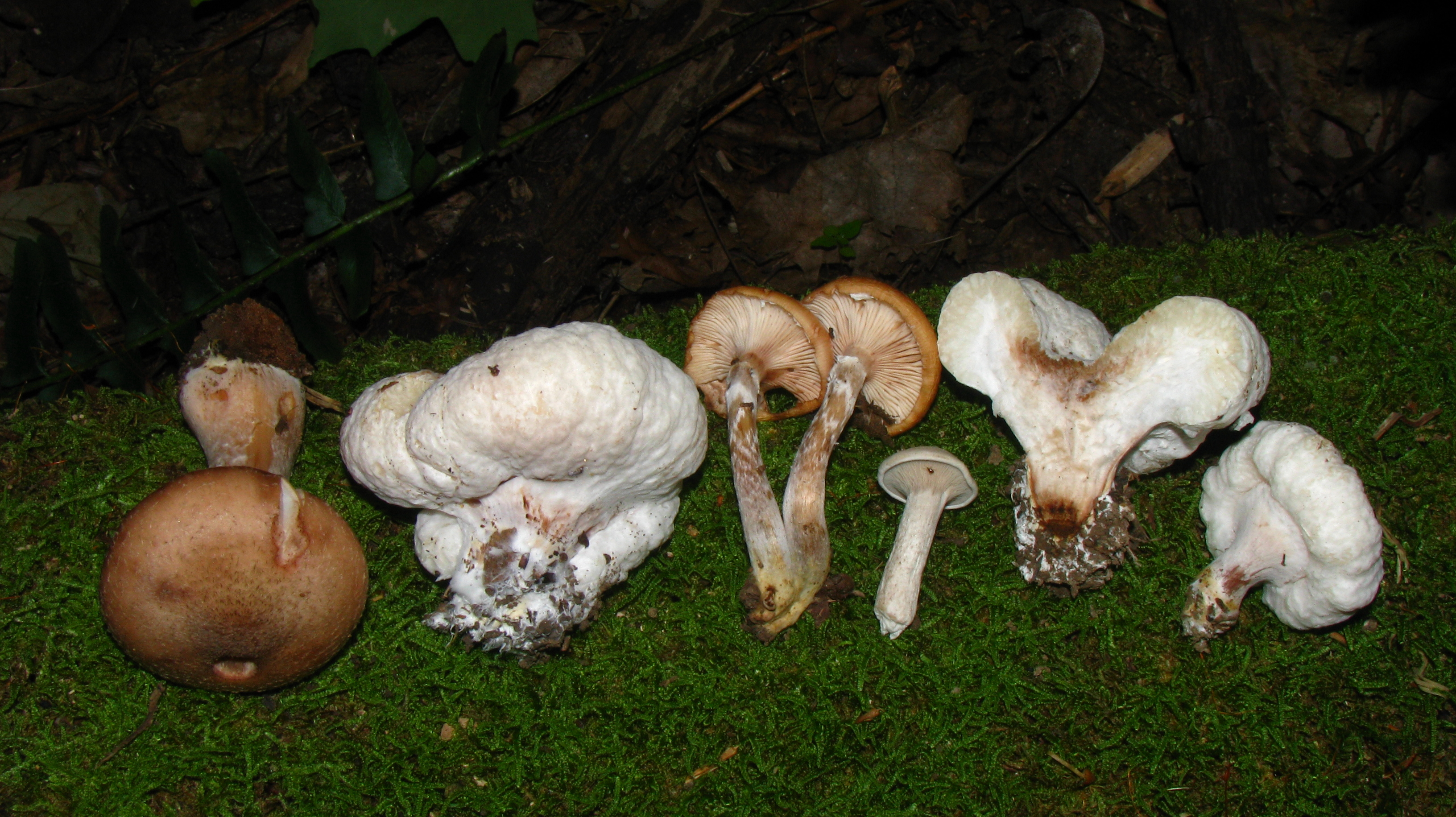 Specimens of the honey mushroom Armillaria gallica, including some parasitized by Entoloma abortivum. Photographed in Ryerson Station State Park, Pennsylvania, USA.